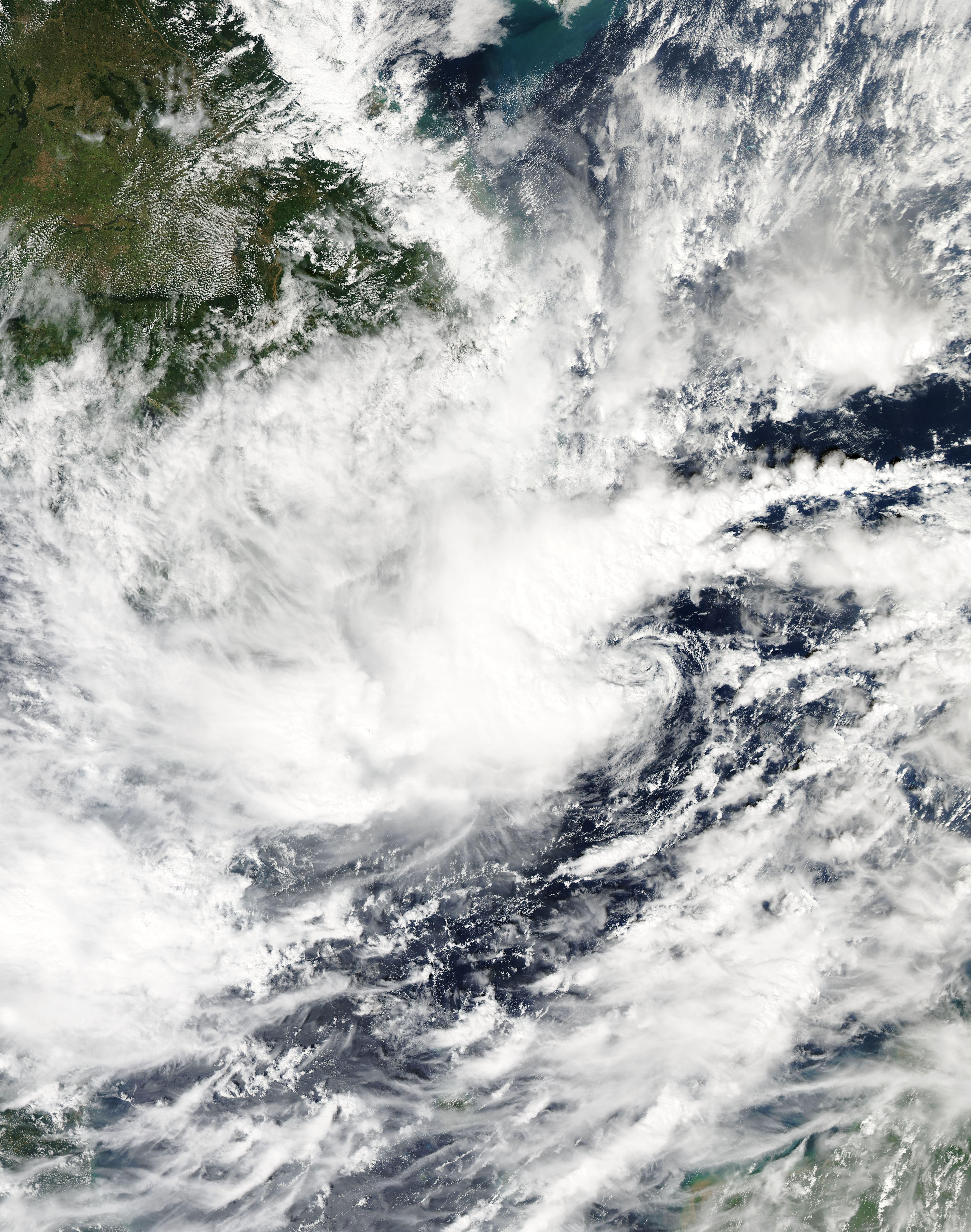 JMA Tropical Depression 43 near the southern coast of Vietnam on November 4, 2016